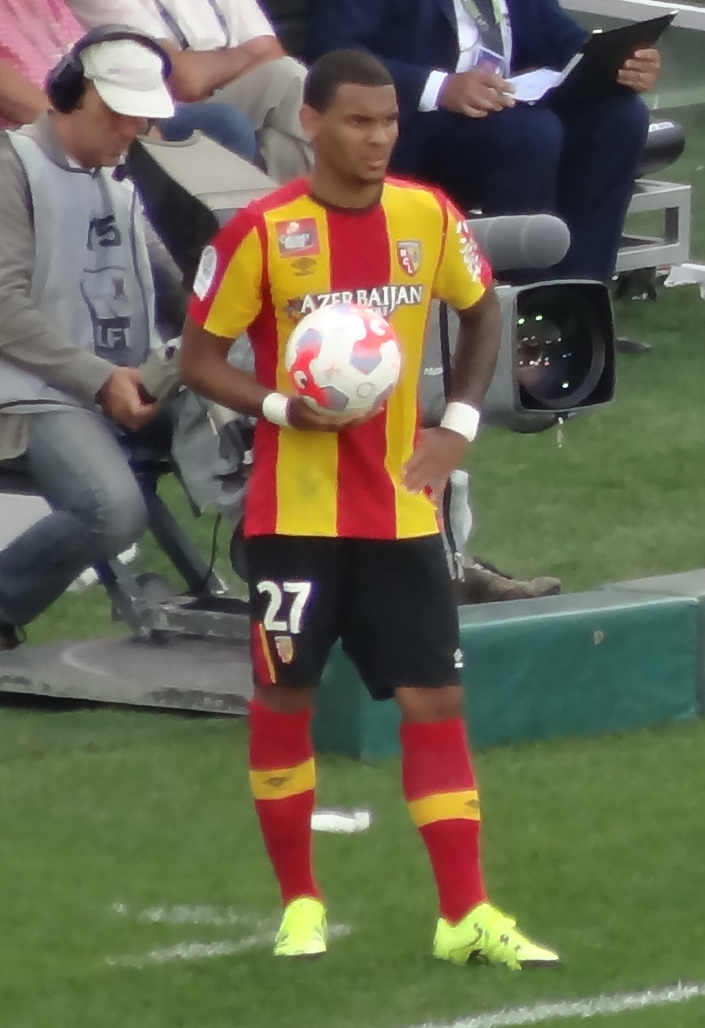 Kenny Lala